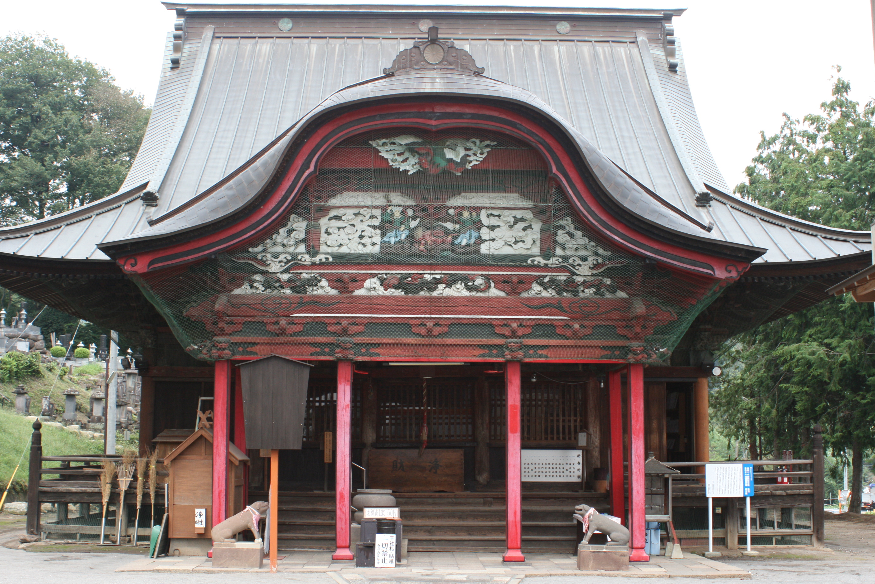 Chōkoku-ji temple, located in Shiroiwa, Takasaki, Gunma, Japan